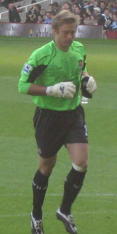 West Ham United footballer Robert Green